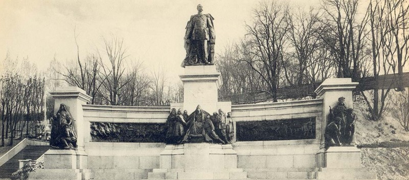 A photo of a monument to tsar Alexander II in old Kyiv. The monument was demolished by the bolsheviks in 1919